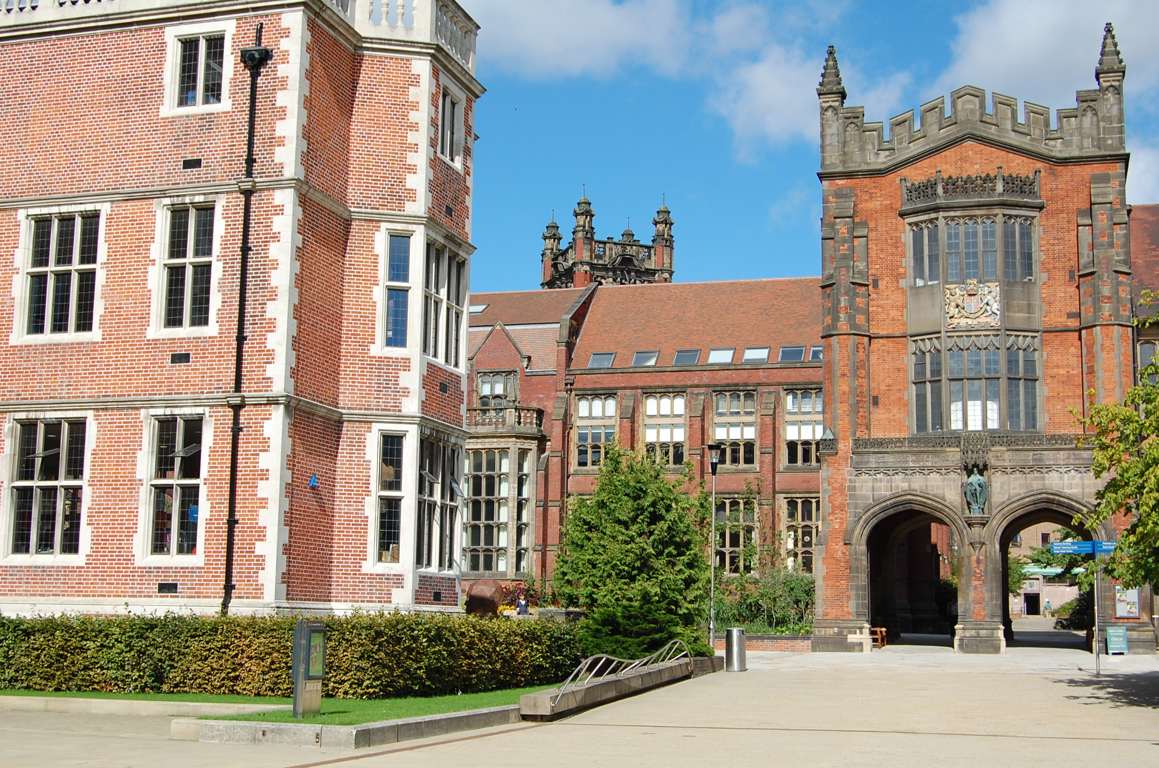 King's Walk on Newcastle University's campus, looking towards the Arches with the Student Union building on the left (2013)